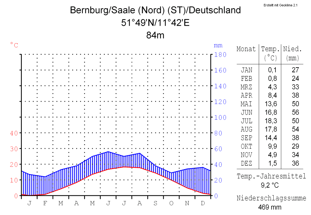 climate chart in the format by Walter and Lieth, metric, °Celsisus and millimeters, made with Geoklima 2.1